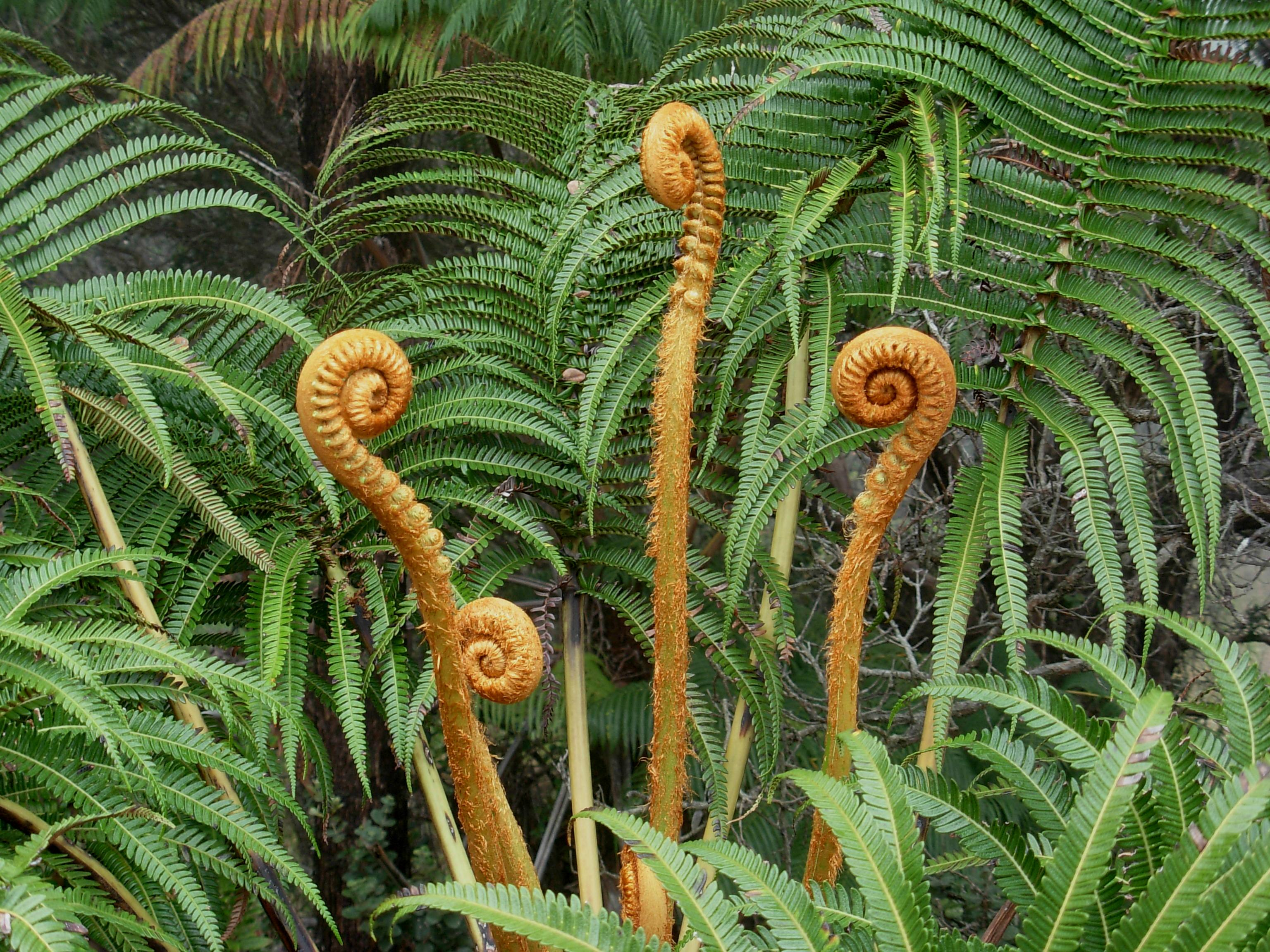 Sadleria cyatheoides (thanks to endemanf for the correct ID) - growing under Metrosideros polymorpha Sadleria cyatheoides near the Kilauea Iki crater - which erupted in 1959. For a fascinating account of the invasion, early succession and recovery of vegetation 1959 Kilauea Iki volcano, see Hawaii: The Fires of Life by Garrett A. Smathers and Dieter Mueller-Dombois. Kingdom: Plantae Division: Pteridophyta Class: Pteridopsida Order:Athyriales Family:Blechnaceae Genus:Sadleria Kilauea Hawai'i Volcanoes National Park 1041308 105